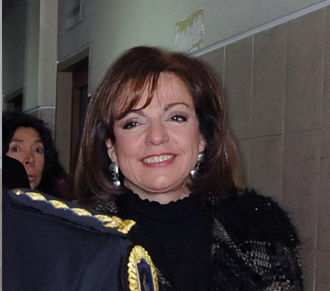 Nilda Garré accompanying President Cristina Fernández de Kirchner while touring the facilities of the Hospital Churruca with the head of the Federal Police